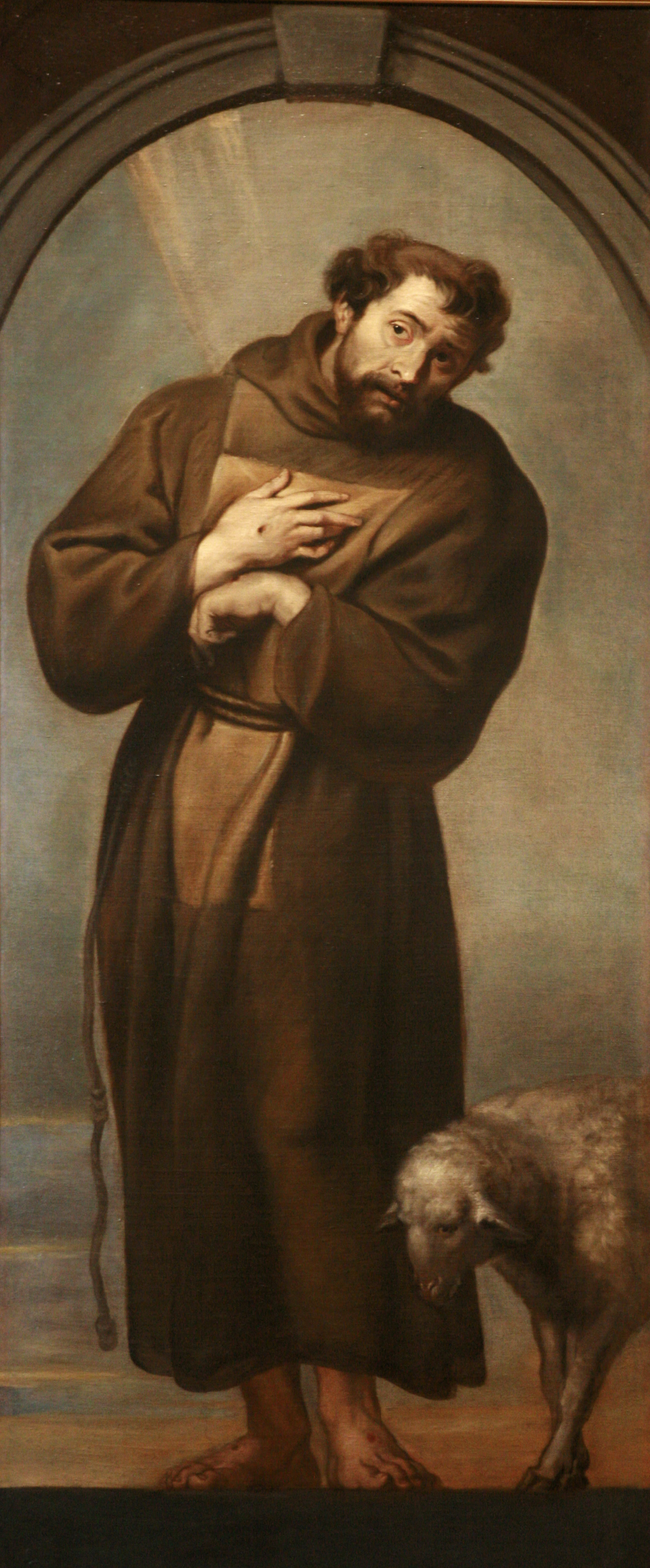 Saint Francis of Assisi, workshop of Rubens, oil on canvas. Accession number 293.